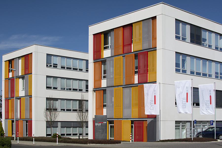 Corporate headquarters of BWI GmbH in Meckenheim, Germany.